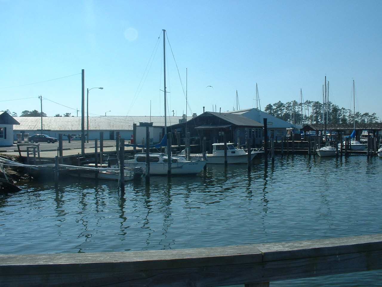 Photo of workboats parked at the Poquoson Marina.